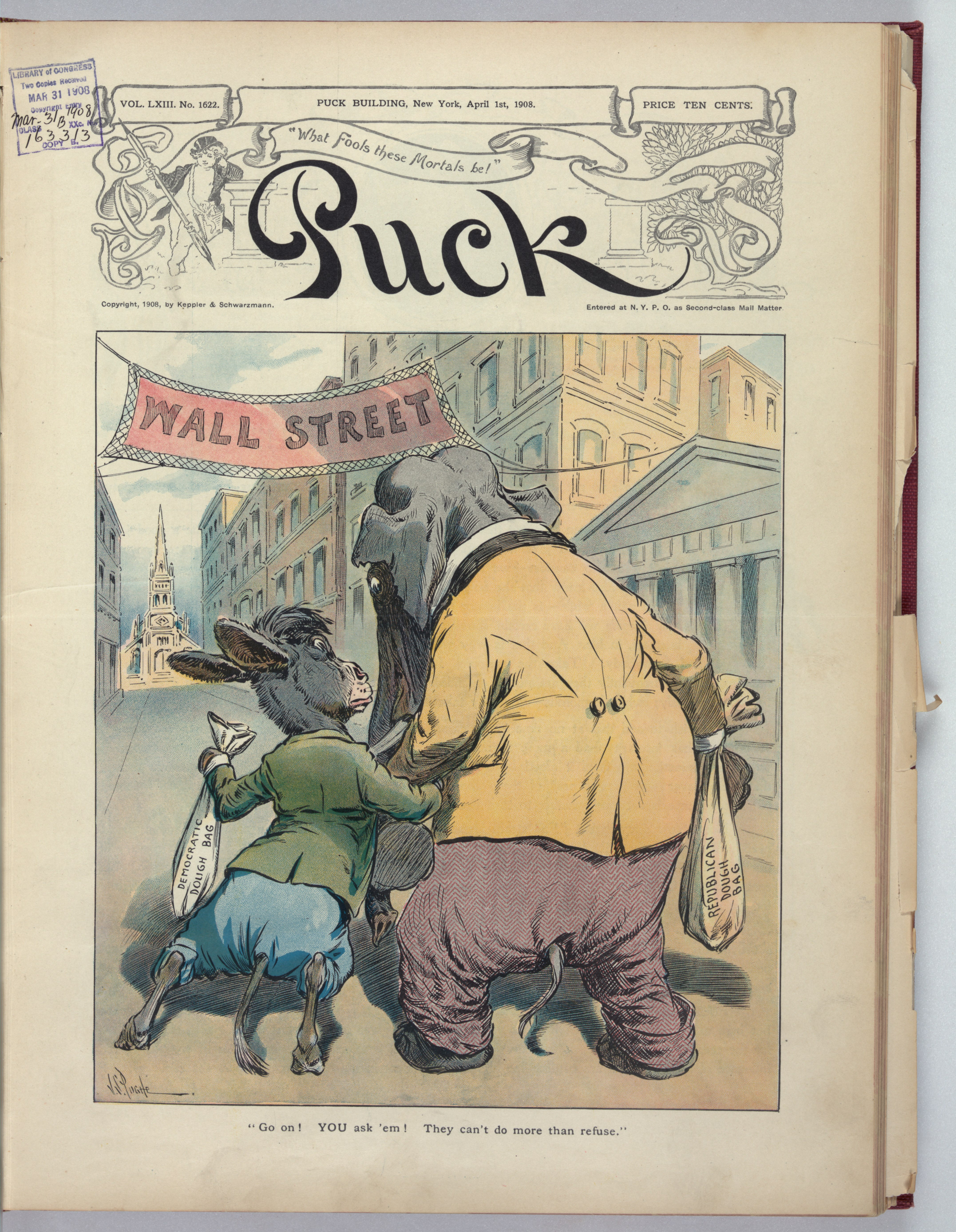 Title: "Go on! You ask 'em! They can't do more than refuse" / J.S. Pughe. Abstract/medium: 1 photomechanical print : offset, color.